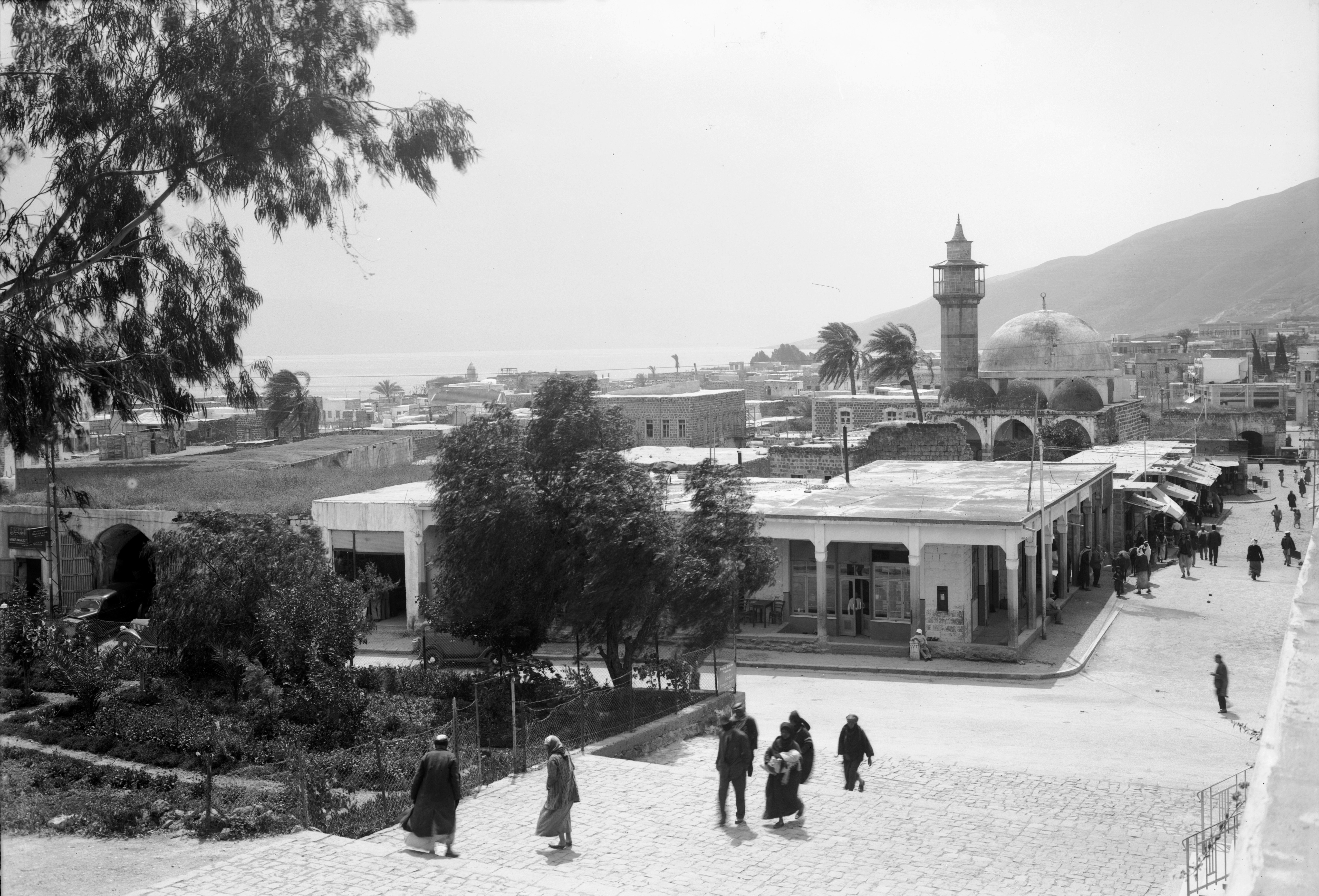 View of Tiberias from the Tiberias Hotel.